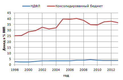 Budget revenue according to Rosstat as % GDP